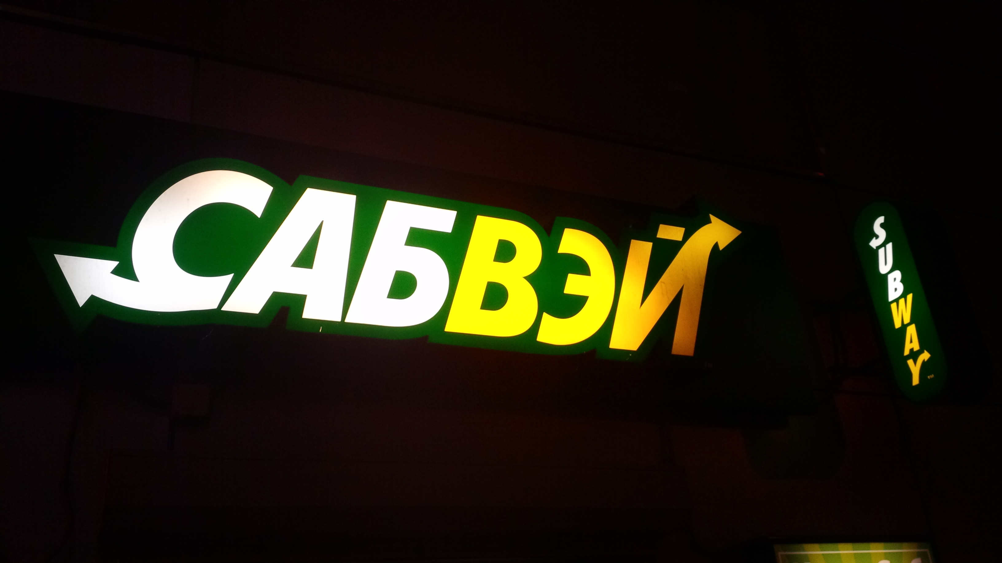 Logo of Subway inRussia